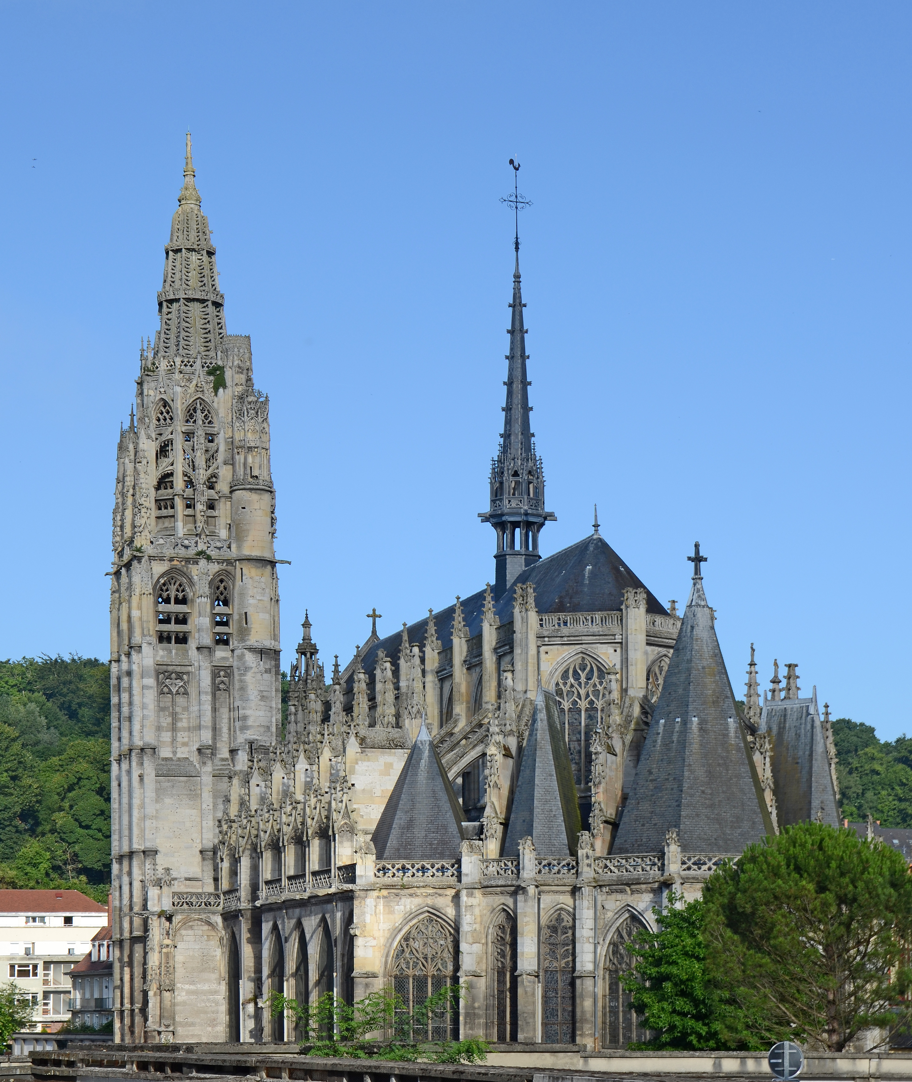 Church of Caudebec en Caux, Seine Maritime, France